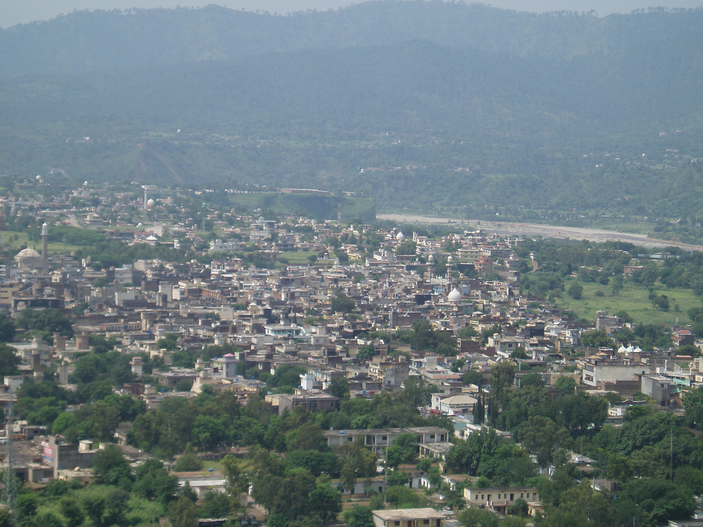 Kotli Mangrallan – view of Kotli, Azad kashmir, Pakistan